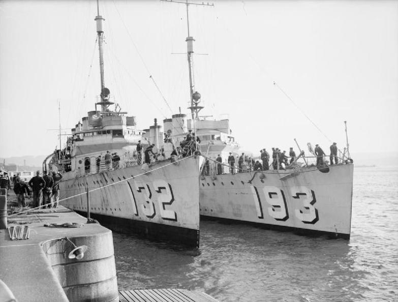 The Arrival of the First Flotilla of Destroyers From America To the Royal Navy, Devonport, September 1940 Two destroyers, HMS Castleton (formerly American Wickes-class destroyer USS Aaron Ward) and HMS Clare (formerly Clemson-class USS Abel P. Upshur), sit moored alongside each other alongside the Devonport Dockyard, September 1940. They still show their US Navy pennant numbers. .Dockyard workers are aboard preparing the ships for service in the Royal Navy.